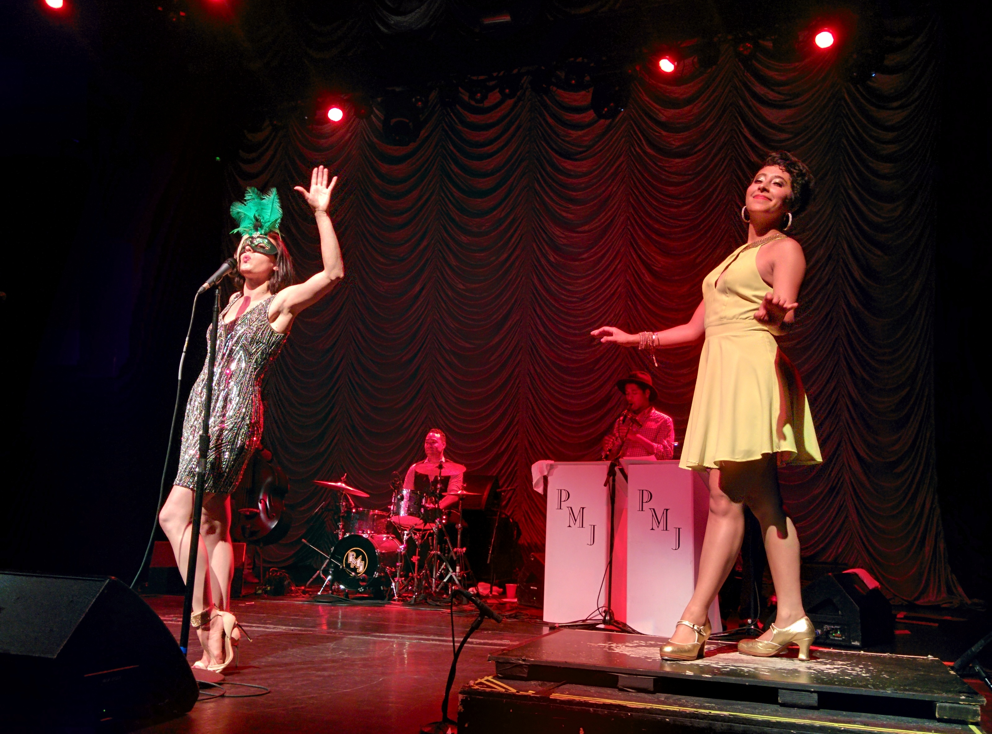 Ariana Savalas (vocals) and Sarah Reich (tap) performing a cover of "Bad Romance" by Lady Gaga at The Regency Ballroom in San Francisco on June 20, 2015.